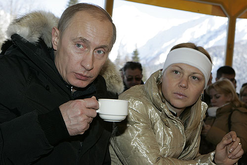 SOCHI. With sportswoman Svetlana Gladysheva in the cafe at the Krasnaya Polyana ski resort.